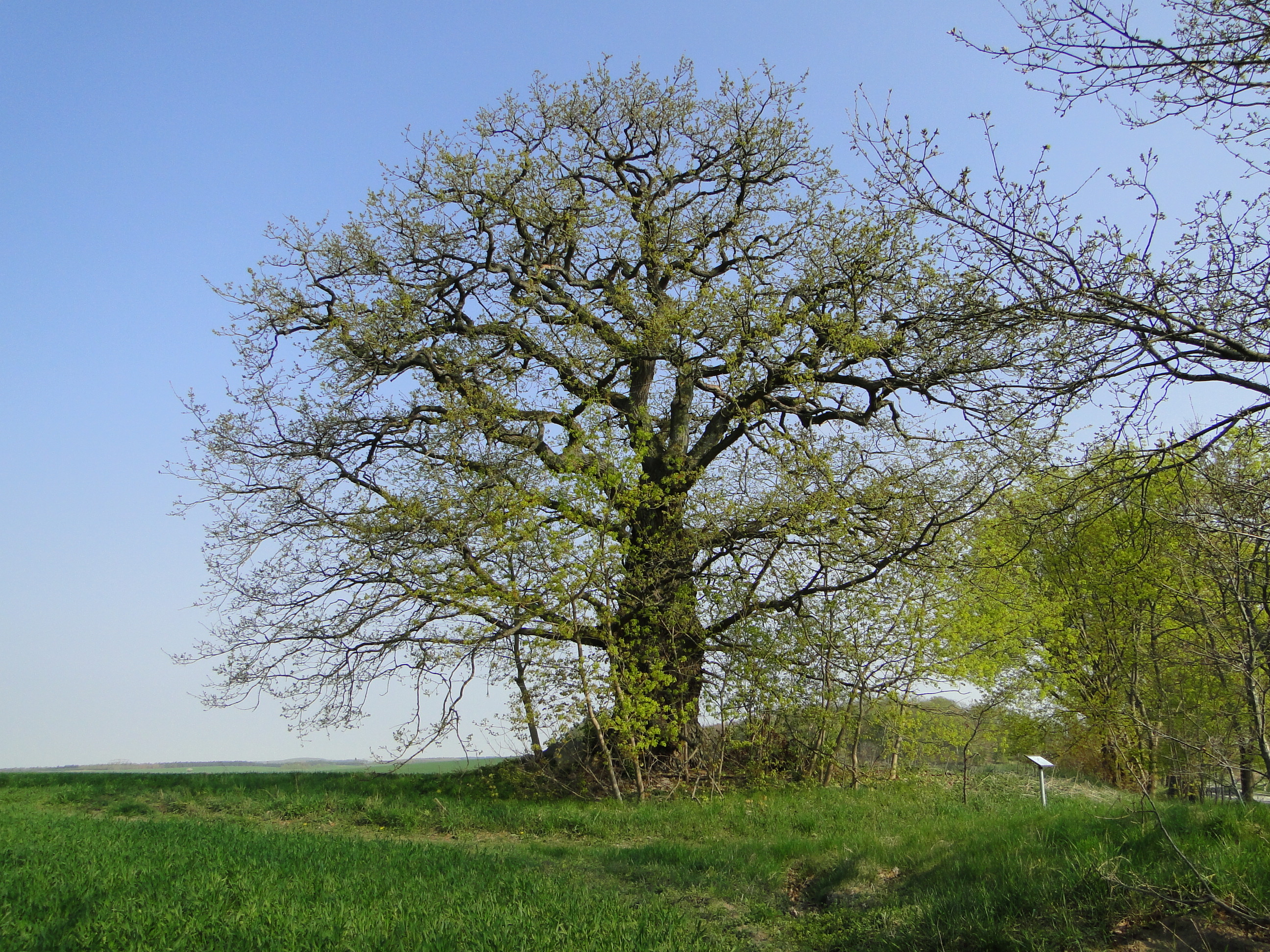 Pedunculate Oak / Pedunculate Oak in Spendin, district Parchim, Mecklenburg-Vorpommern, Germany